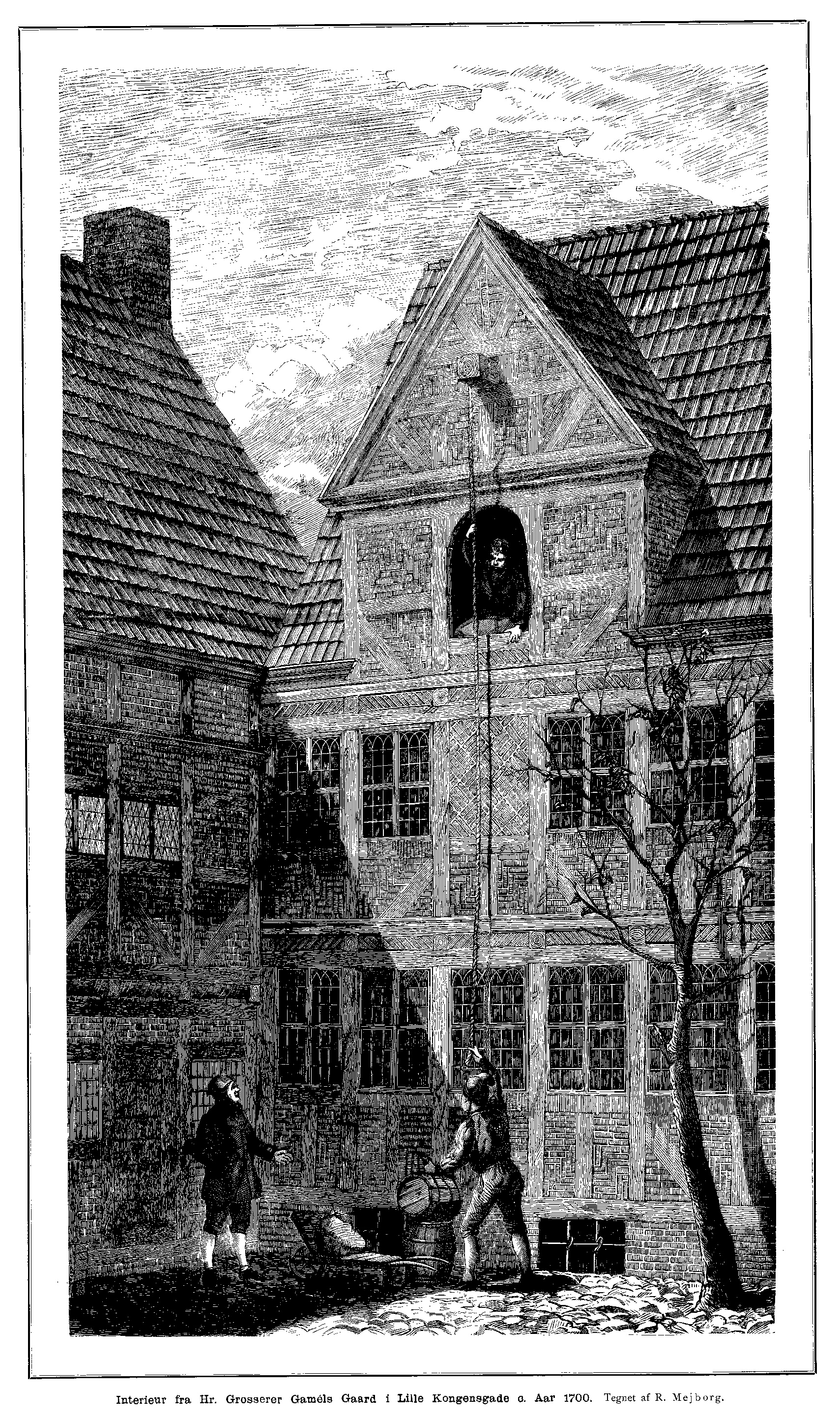 Skippernes Lavshus (The Skippers' Guild House), Renaissance house in Copenhagen. Built 1606, demolished 1881-82